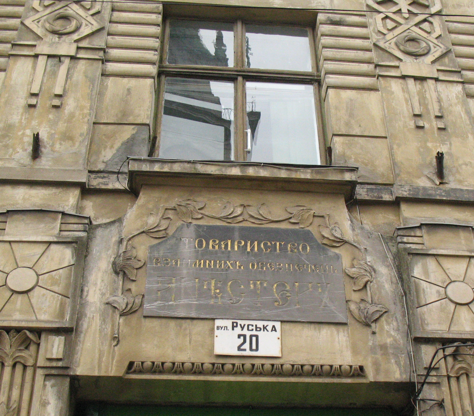 Table of Ukrainian cooperative bank "Dnister" on 20 Rus'ka street in Lviv. Ukraine